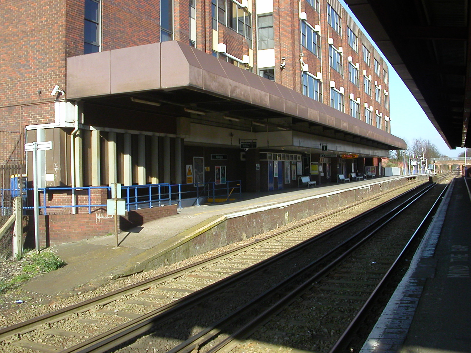 View across the eastbound platform at Wallington station. Photographed on 17th March 2007.